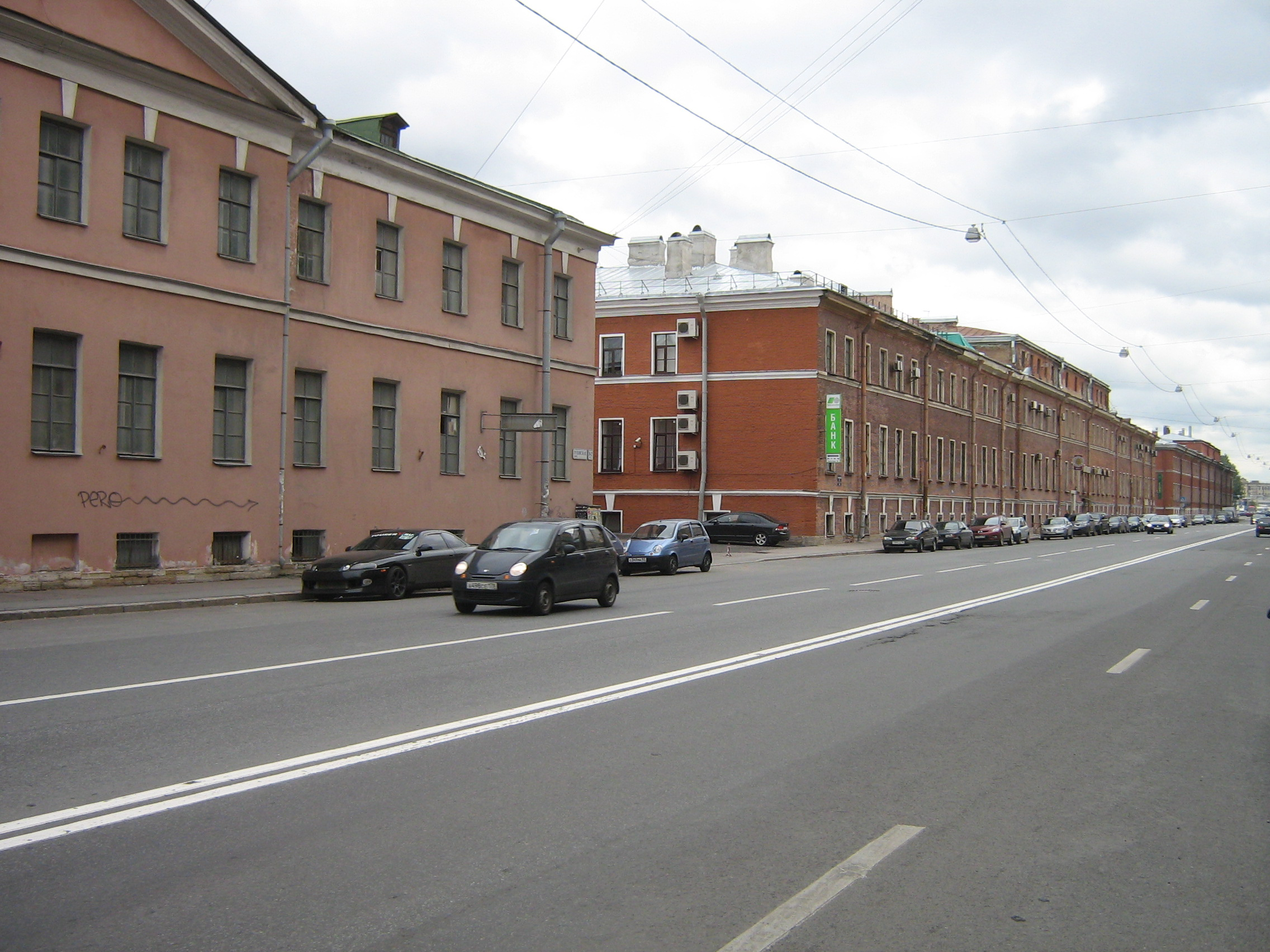 Barracks of the His Majesty Lifeguard Jaeger Regiment in the Ruzovsky street to Saint Petersburg (Russia).